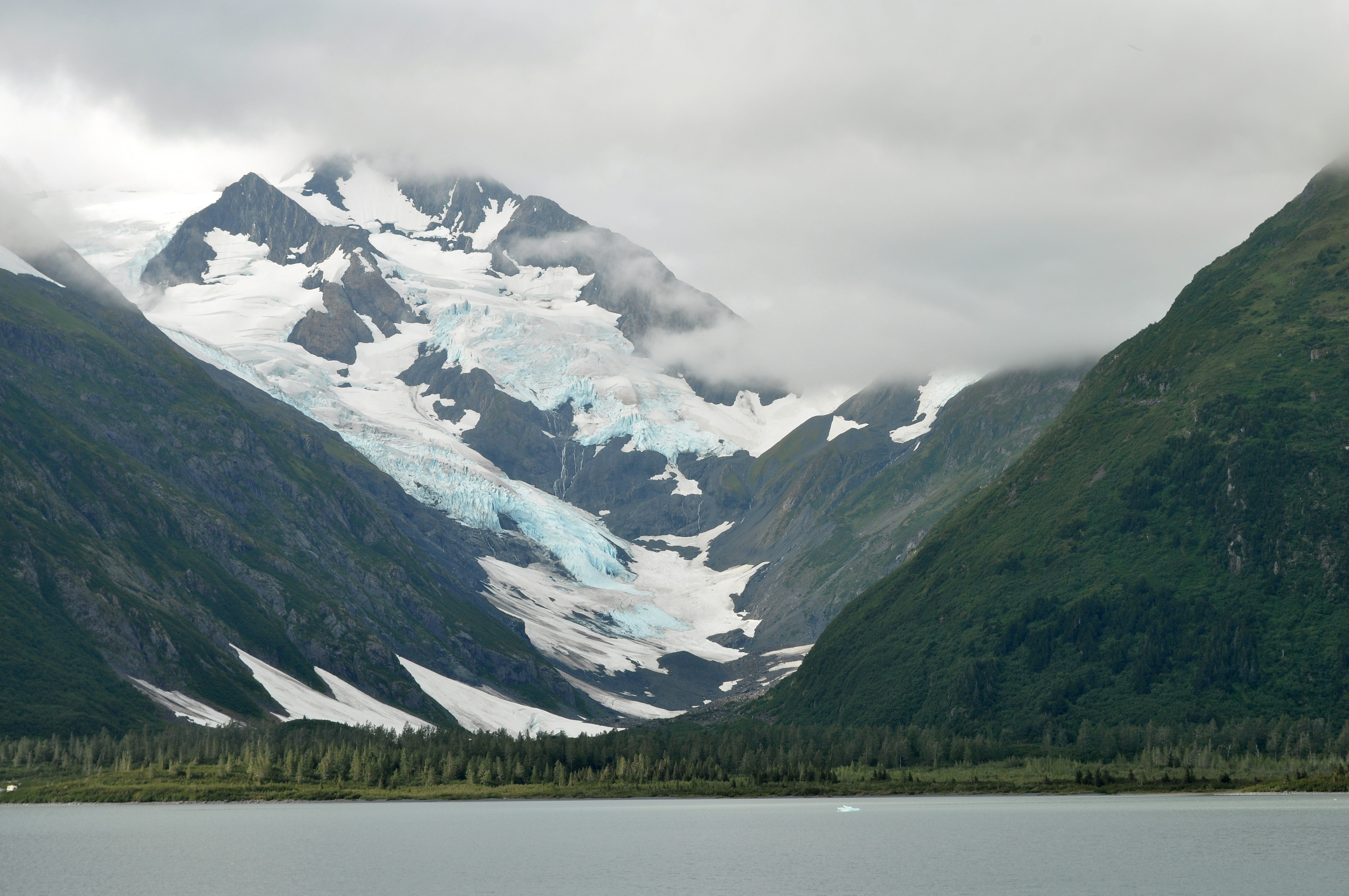 Byron Peak, near Portage Lake in Chugach National Forest, Alaska